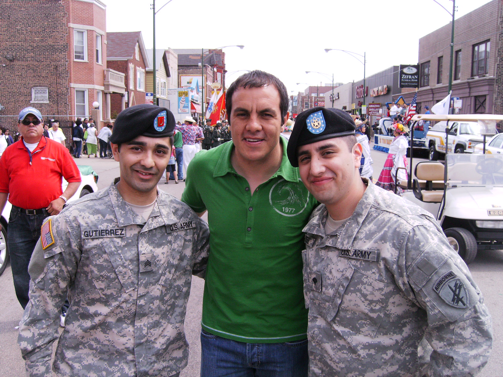 Sergeant Oscar Gutierrez and his brother, Specialist Marco Gutierrez, both USAR Soldiers, pose with Major League Soccer "Chicago Fire" player, Cuauhtémoc Blanco, after they marched together in the 26th Annual Cinco De Mayo Parade in downtown Chicago. The parade, hosted by the Casa Puebla Chamber of Commerce, attracted several thousand attendees, despite the outbreak of the H1-M1 Flu that almost cancelled the event.